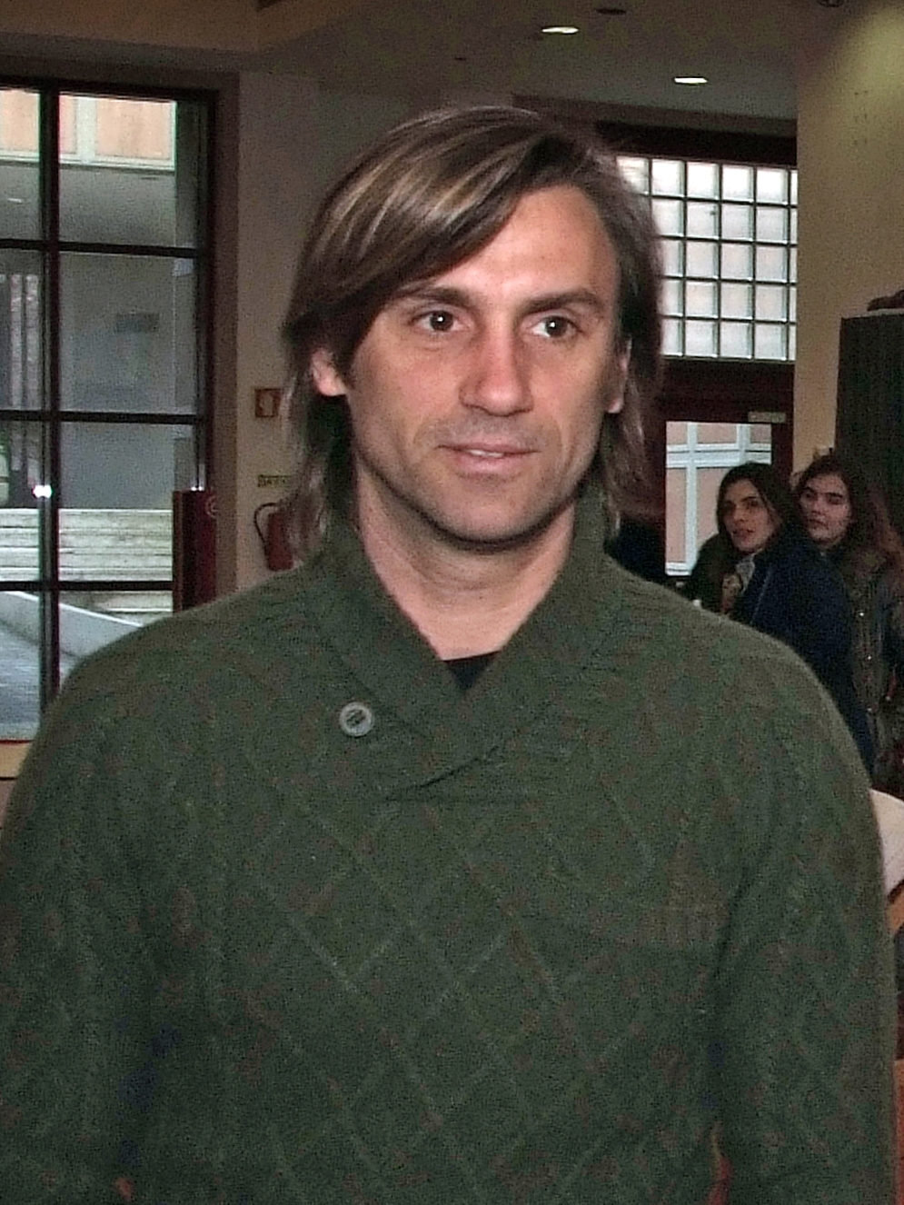 Former football player João Vieira Pinto at an Exponor exhibition, in Porto, Portugal.